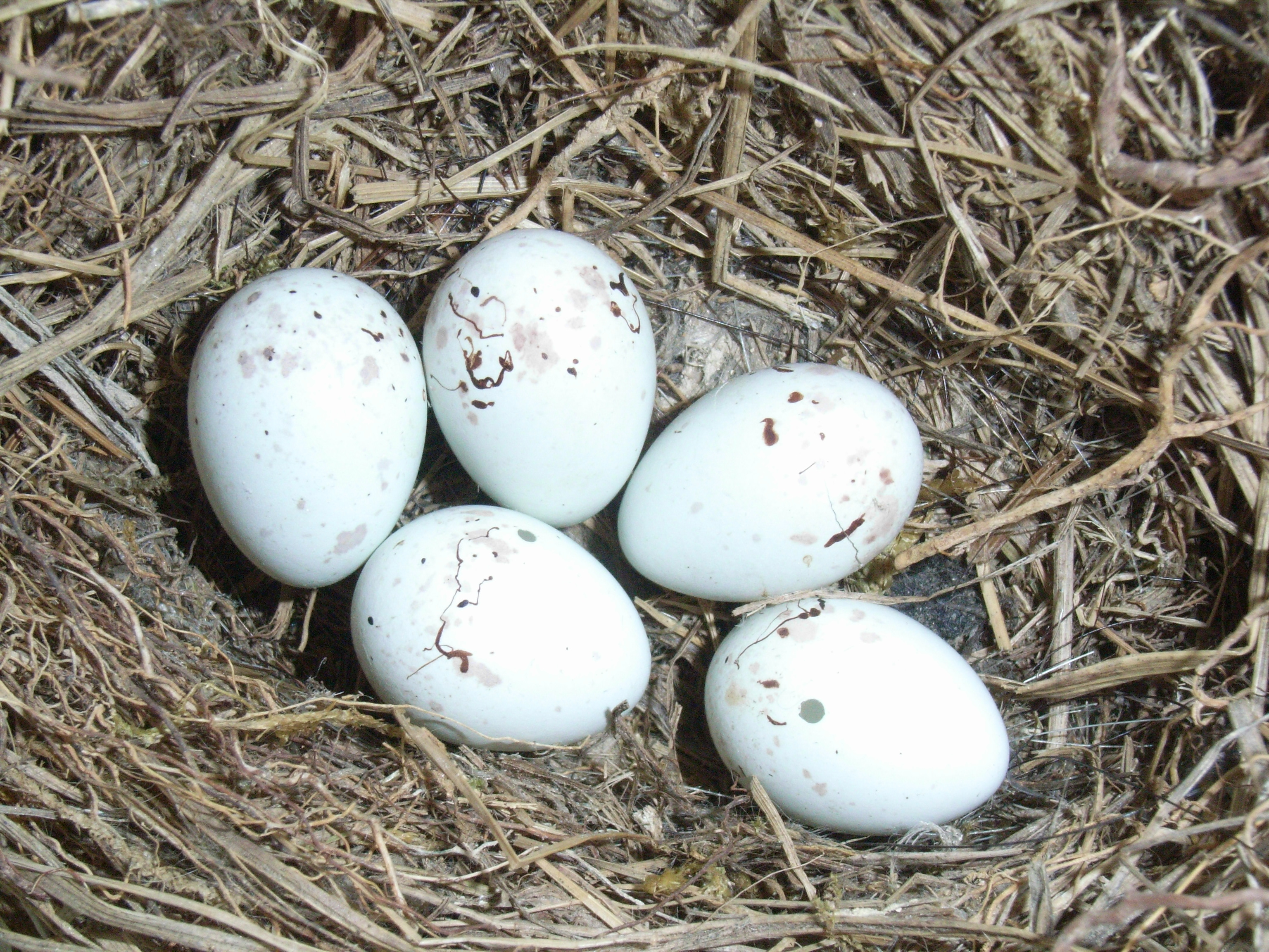 Carduelis cannabina eggs